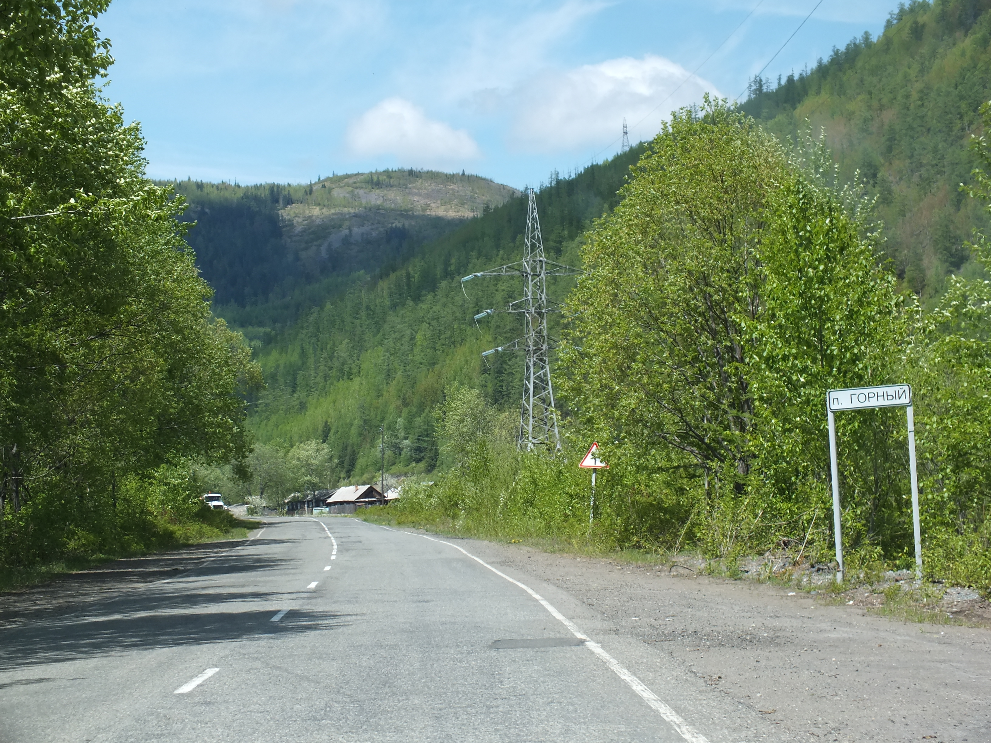 Gorniy Solnechniy rayon Khabarovskiy kray